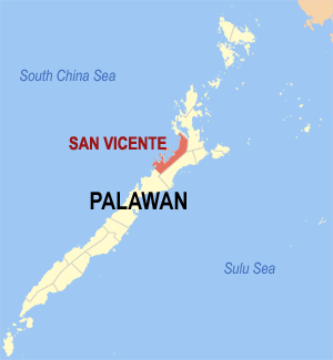 Map of Palawan showing the location of San Vicente